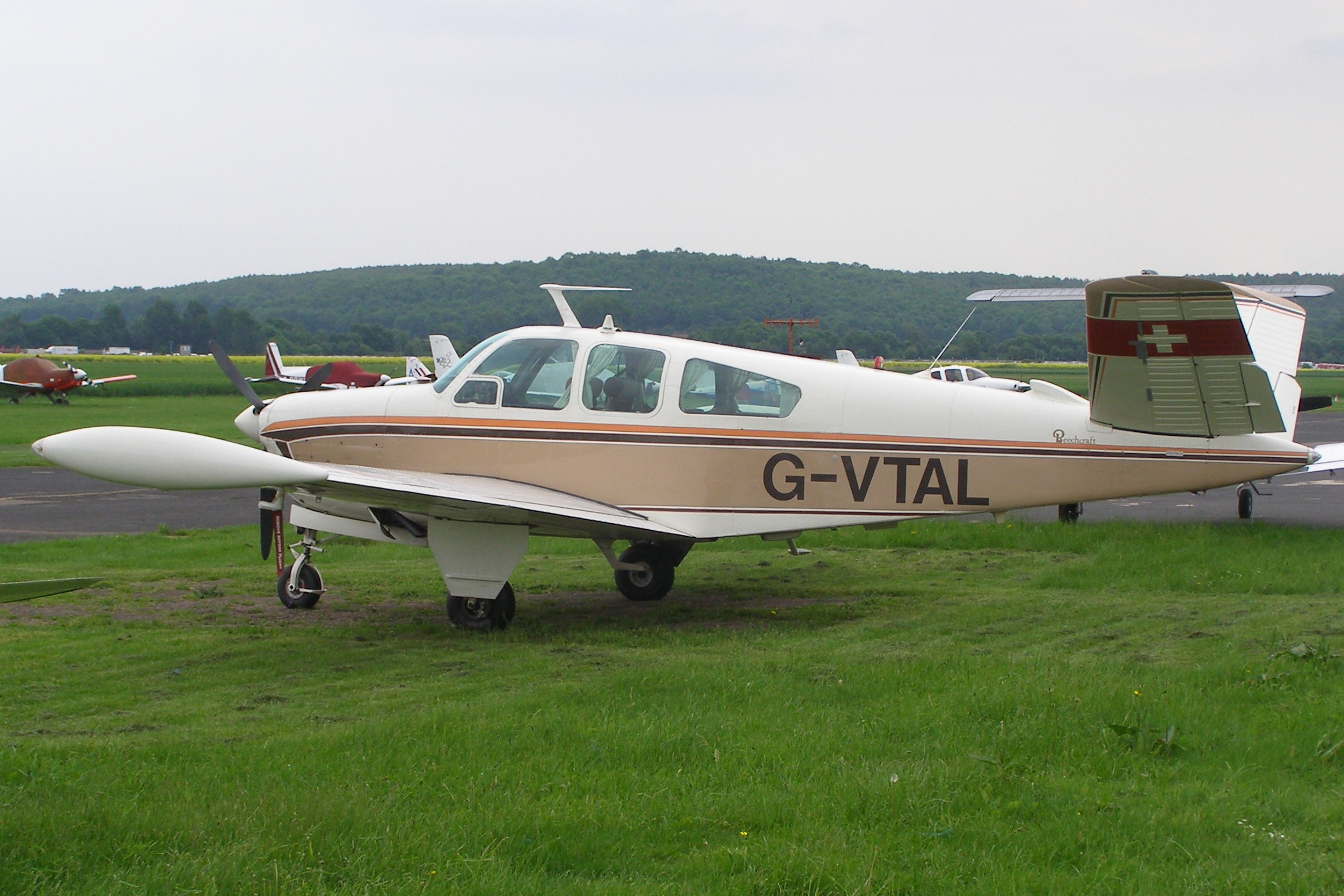 1965-built Beechcraft V35 Bonanaza registered G-VTAL taken at Wellesbourne-Mountford Airfield, England